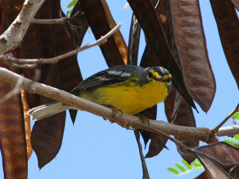 Adelaide's Warbler (Dendroica adelaidae), Vieques Island, Puerto Rico